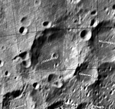 Combined Lac 132 and Lac 133 image from USGS Digital Atlas.